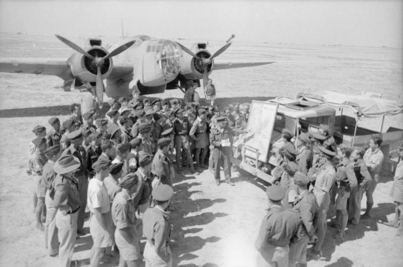 Royal Air Force Operations in the Middle East and North Africa, 1939-1943. Wing Commander P le Cheminant (later Air Chief Marshal Sir Peter le Cheminant), Commmanding Officer of No. 223 Squadron RAF, briefs aircrews for the final bombing raid of the North African campaign in front of a Martin Baltimore Mark IIIA at La Fauconnerie South, Tunisia; (scene reconstructed after the event). On 12 May 1943, eighteen Baltimores of Nos. 55 and 223 Squadrons RAF, led by le Cheminant, bombed remnants of the German 90th Light Division which had refused to surrender its defended positions near Bou Ficha.